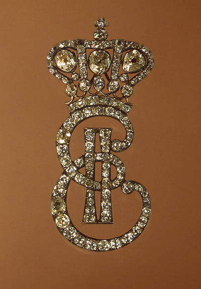 Monogram_of_Catherine II The_Great. Silver, gold, cut diamonds; polished